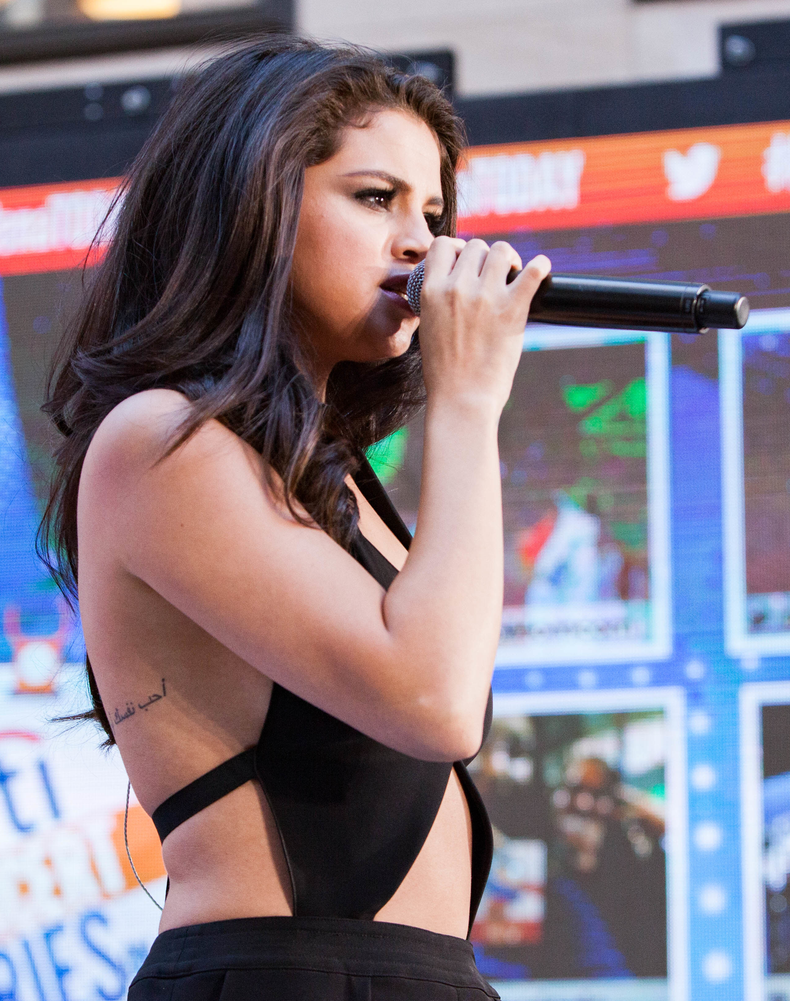 Selena Gomez TODAY Show Live 2015